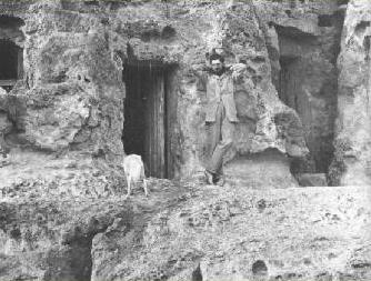 Flinders Petrie in Giza c. 1880